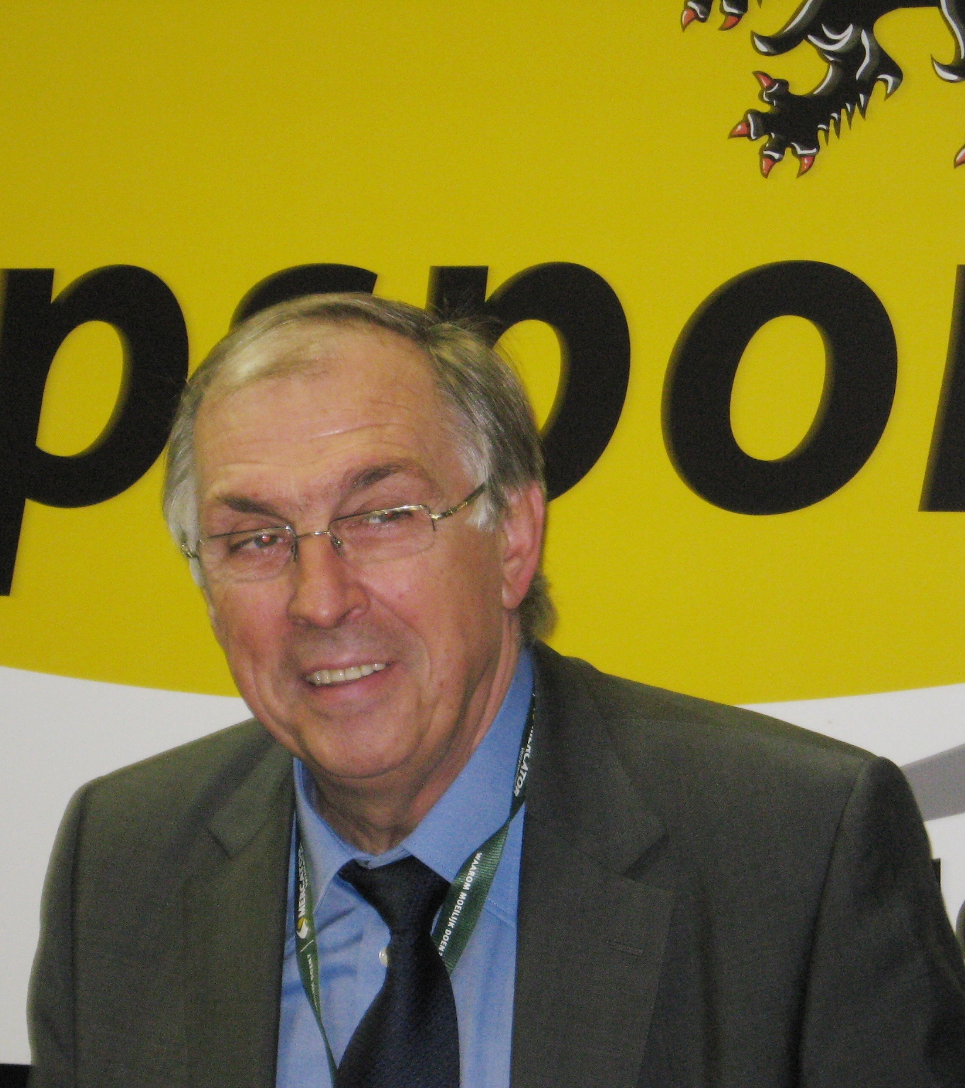 Patrick Sercu, former cyclist at the Six Days of Flanders-Ghent (2008)